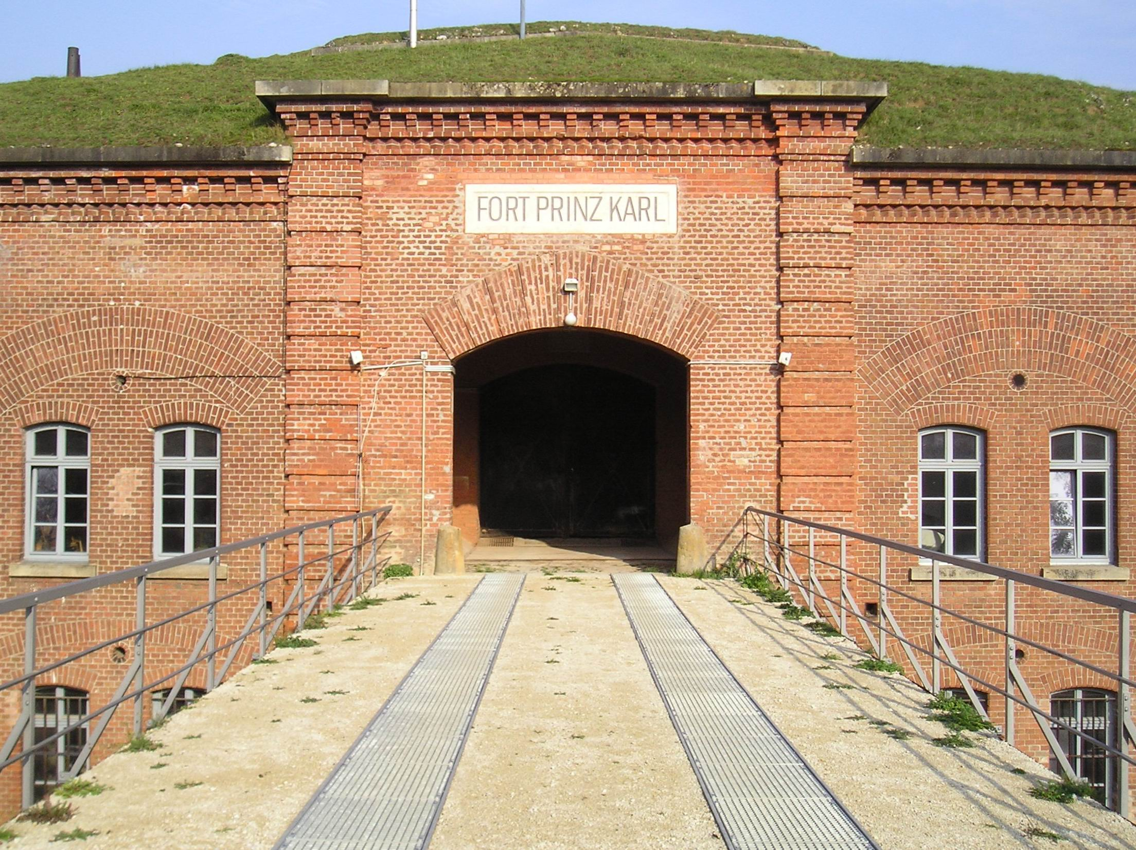 Main entrance gate of Fort Prinz Karl near Ingolstadt (Bavaria, Germany)